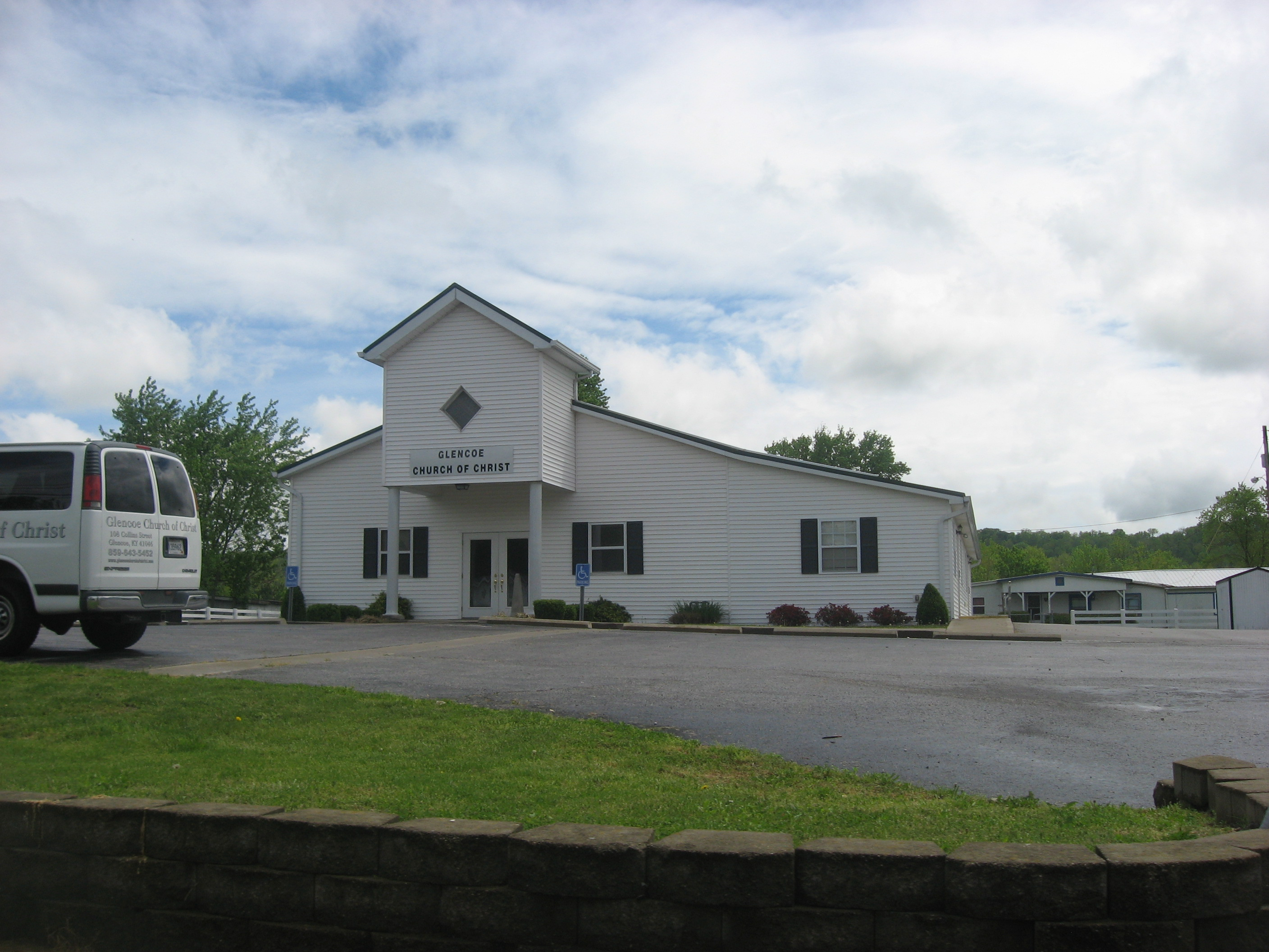 Front of the Glencoe Church of Christ, located at 108 Collins Street (Kentucky Route 467) in Glencoe, Kentucky, United States.